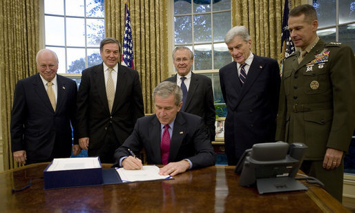 President George W. Bush signs into law H.R. 5122, the John Warner National Defense Authorization Act for Fiscal Year 2007, Tuesday, Oct. 17, 2006, in the Oval Office. Joining him are from left: Vice President Dick Cheney, Rep. Duncan Hunter of California, Secretary of Defense Donald Rumsfeld, Sen. John Warner of Virginia, and General Peter Pace, Chairman, Joint Chiefs of Staff.